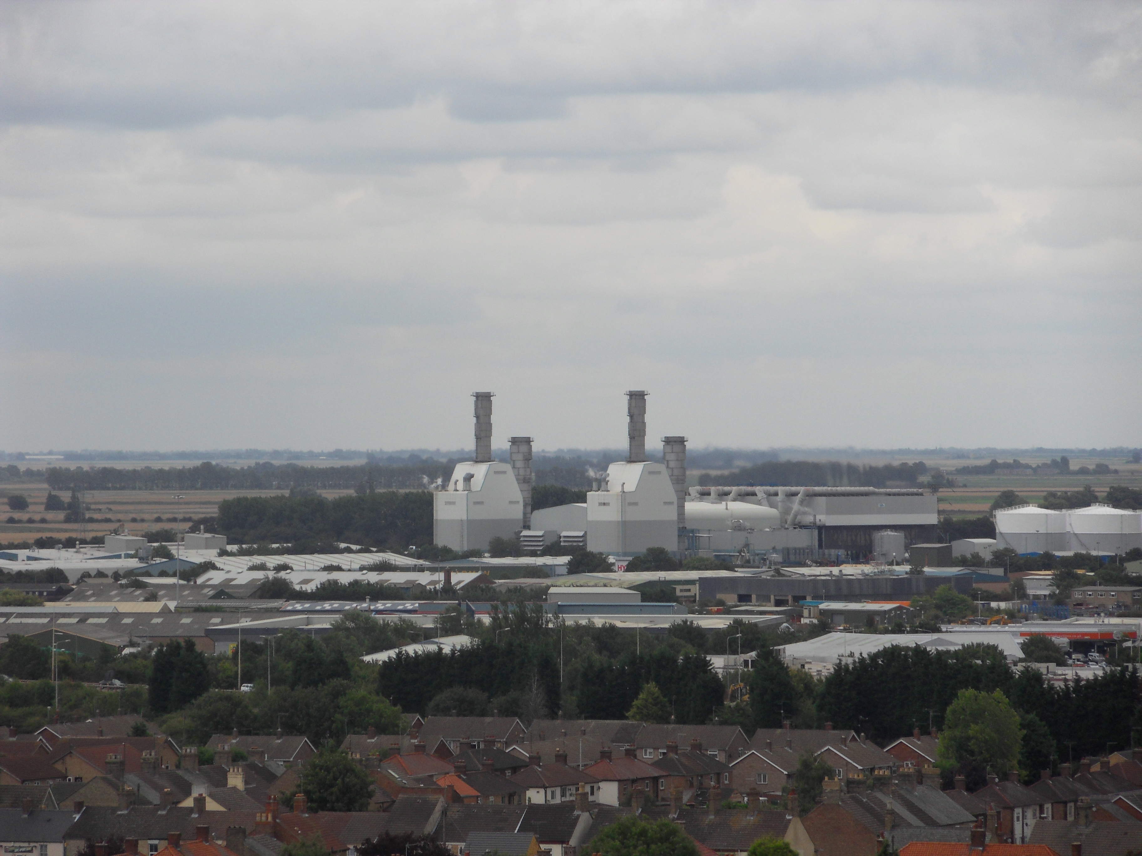 Peterborough power STation as viewed from Peterborough Cathedral